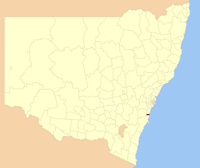 Location of Shellharbour LGA in New South Wales